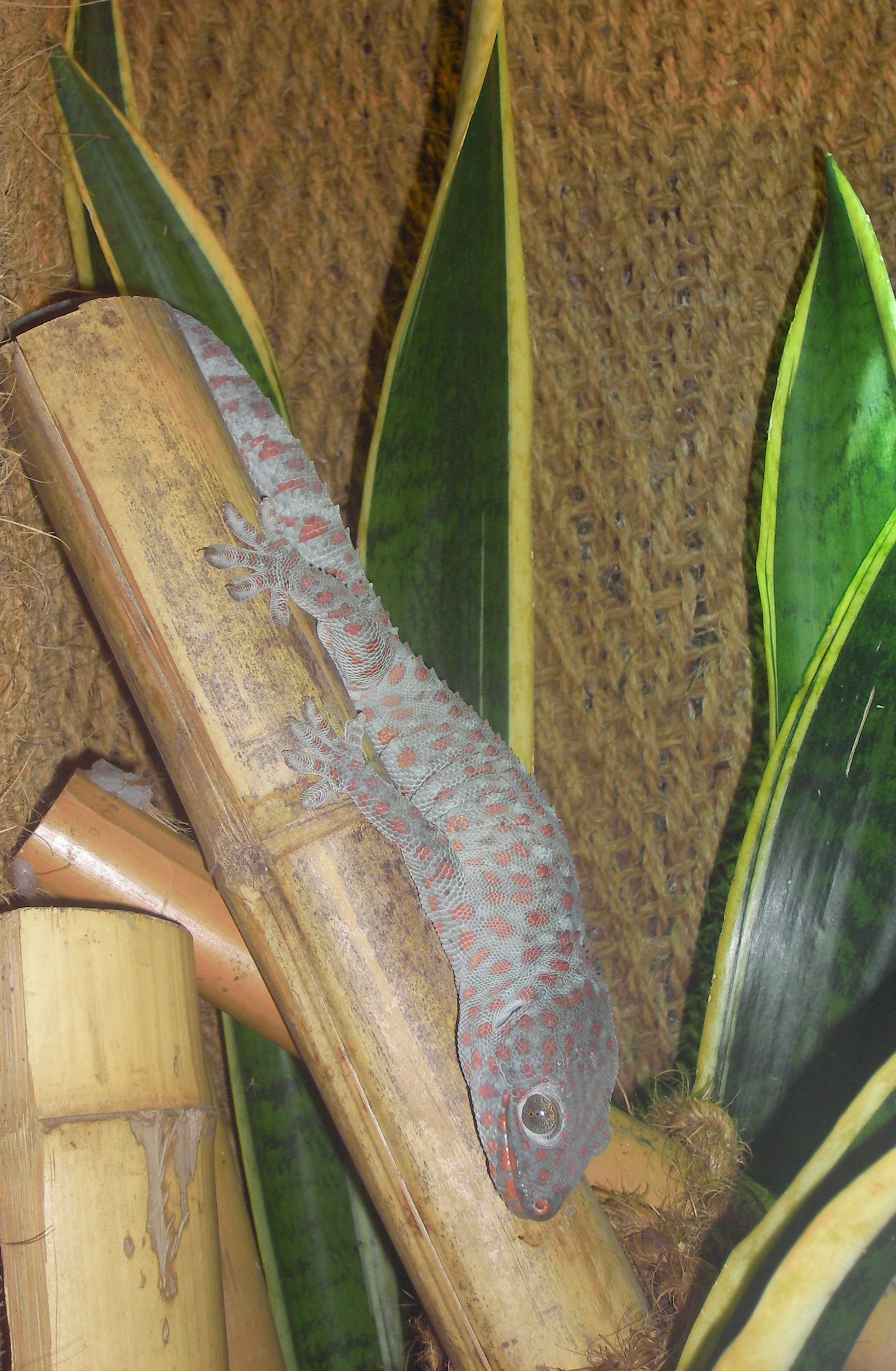 Gekko gecko